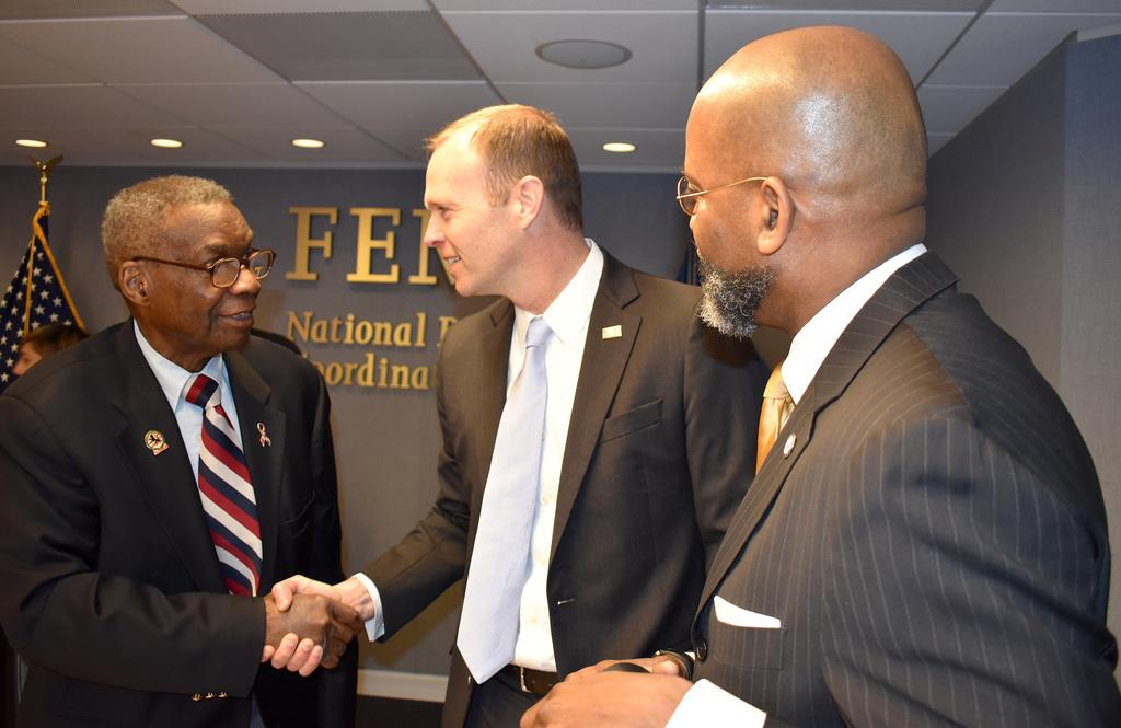 WASHINGTON, DC – FEMA Administrator Brock Long greets former FEMA Director and Retired Lt. Gen. Julius Becton, Jr., prior to the renaming ceremony of the National Response Coordination Center March 8, 2018. Becton's accomplishments include 40 years of service in the U.S. Army, director of the USAID's Office of U.S. Foreign Disaster Assistance, and the first African American FEMA director.